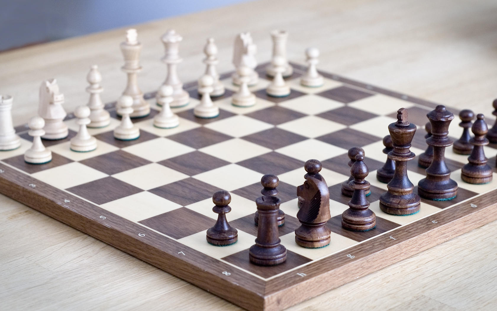 Chess board with wooden Staunton chess pieces.